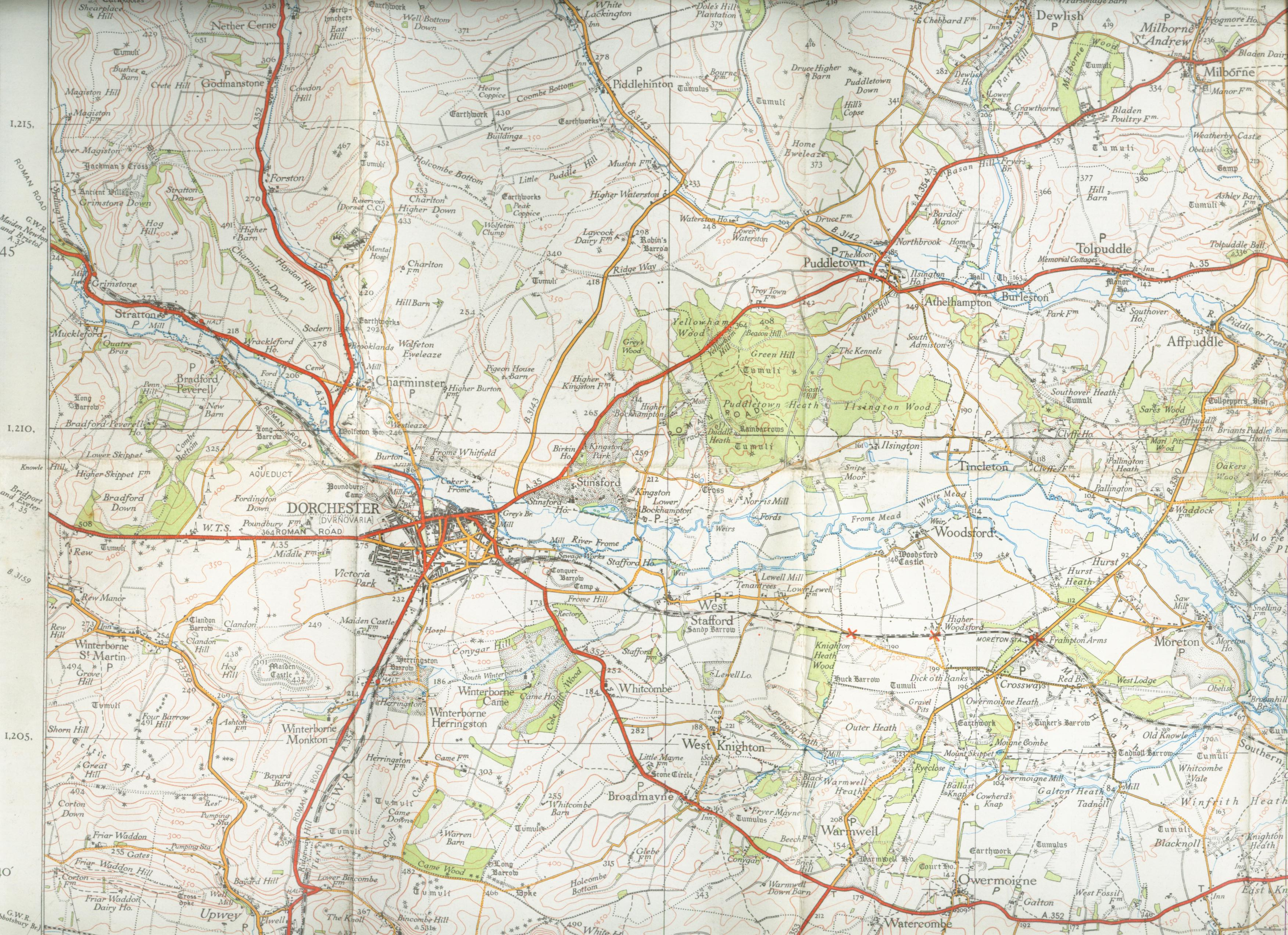 OS map from 1937